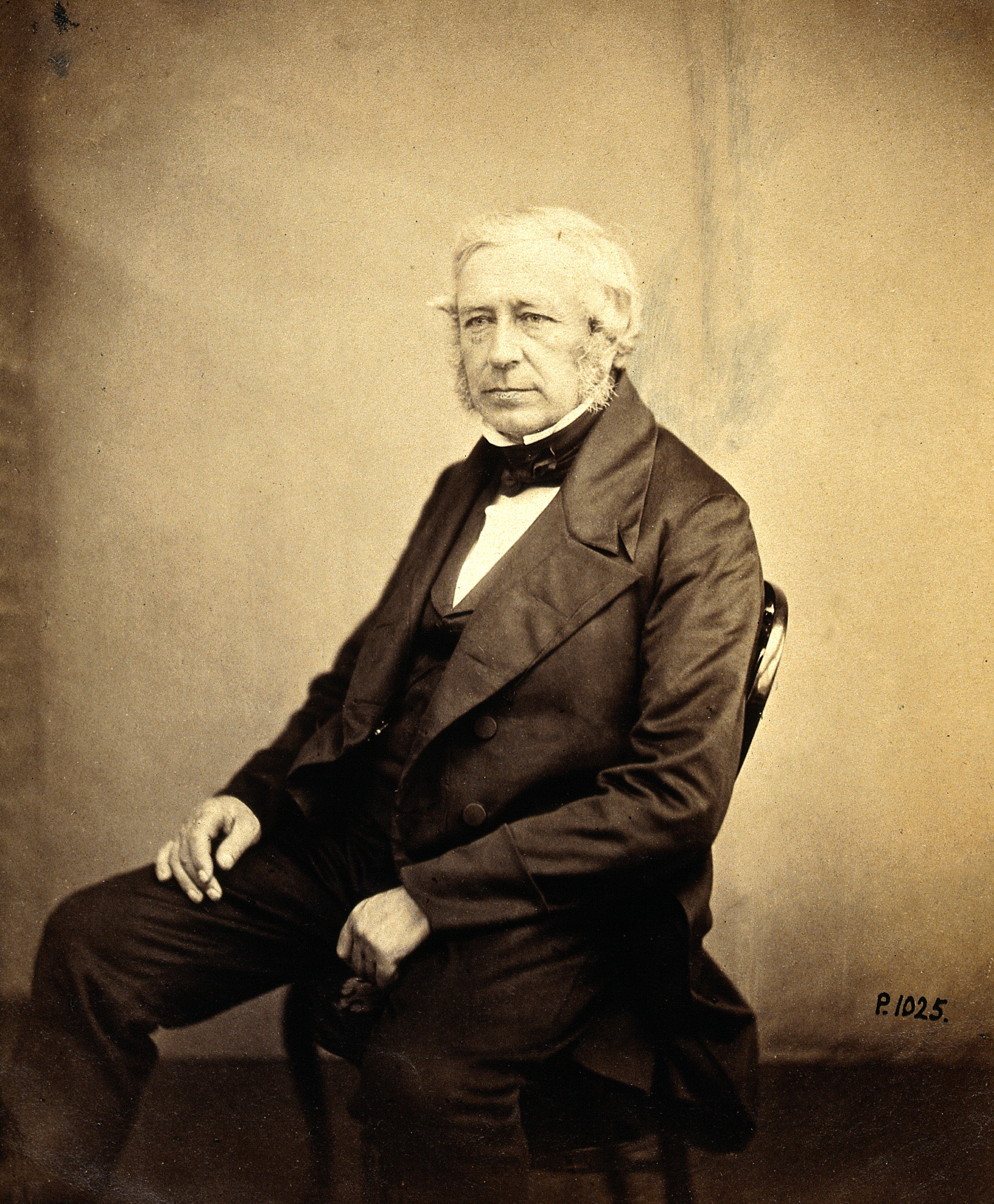 John Stevens Henslow. Photograph by Maull & Polyblank. Iconographic Collections Keywords: portrait photographs